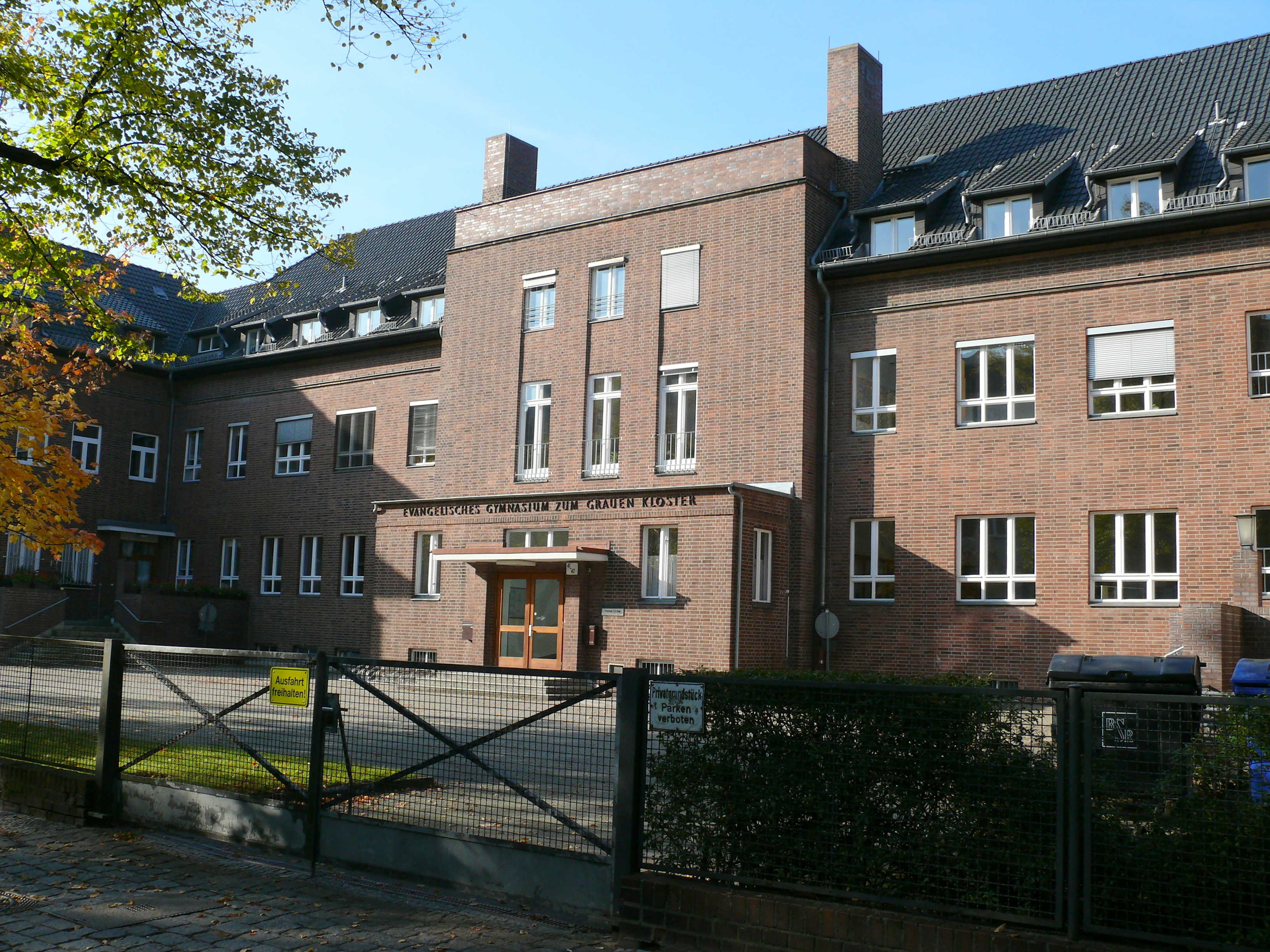 Berlin-Schmargendorf Salzbrunner Straße Gymnasium zum grauen Kloster